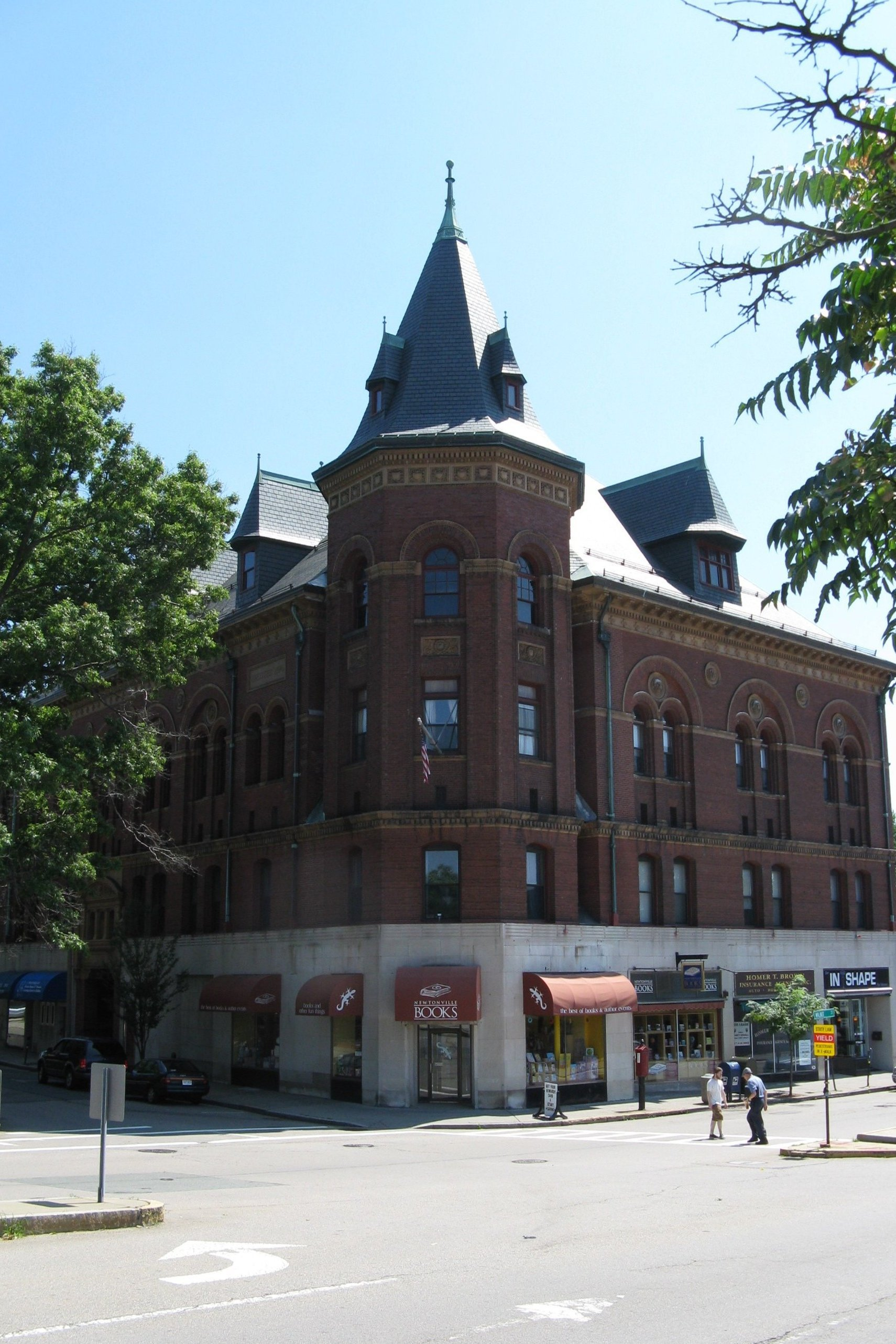 Masonic Building, Newtonville Massachusetts